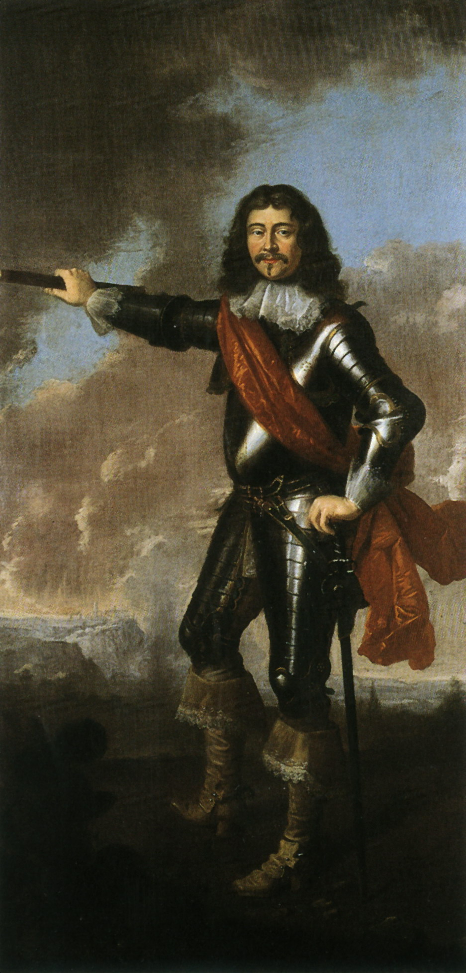 Frédéric Maurice de la Tour d'Auvergne, duke of Bouillon (1605-1652), painted for the Gouvernors Palace in Maastricht by Johann Valentin Tischbein (after contemporary portraits?), ca 1750. Museum collection of Schloss Fasanerie, Fulda, Germany.